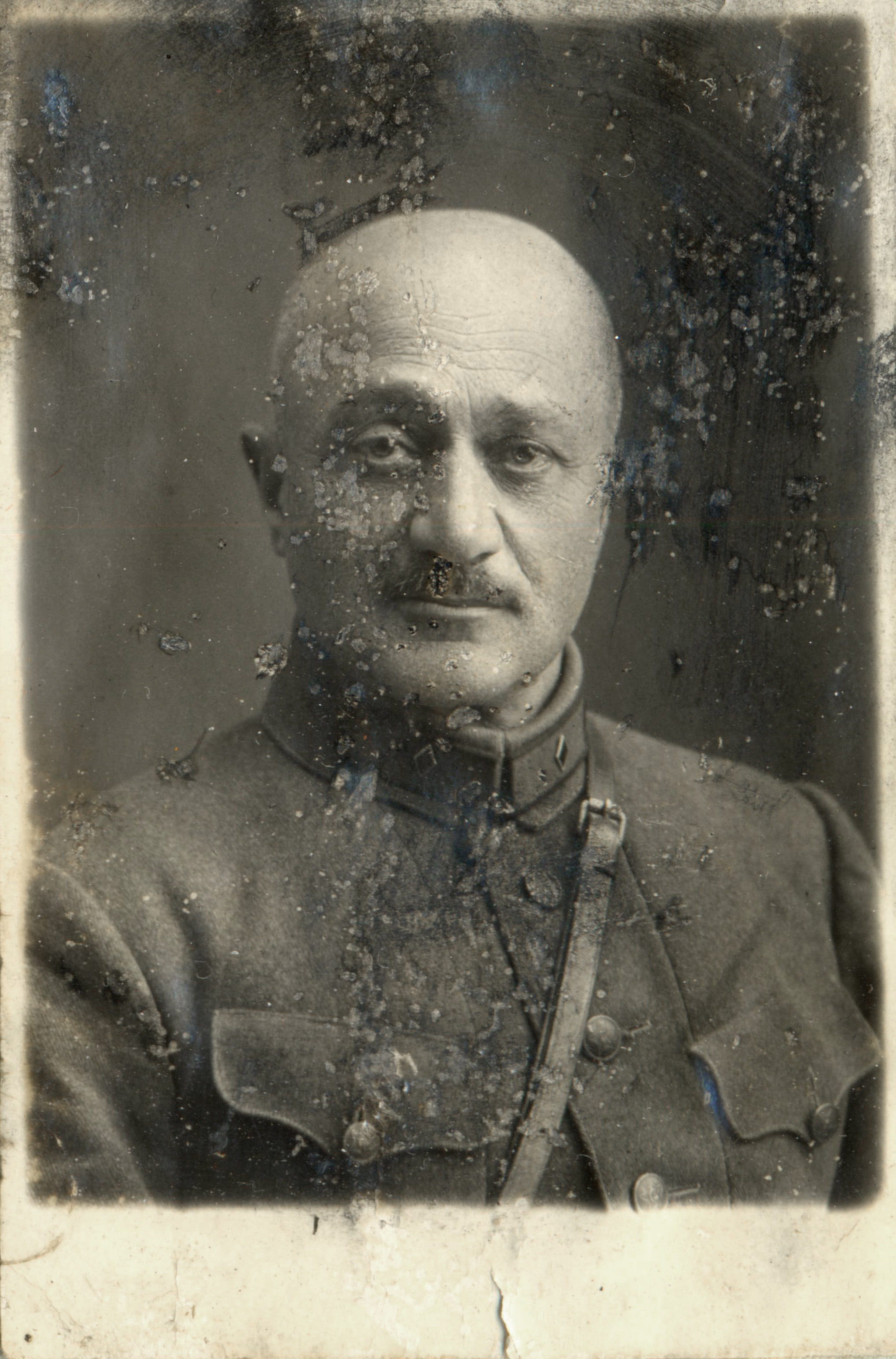 Christophor Araratov in 1930s